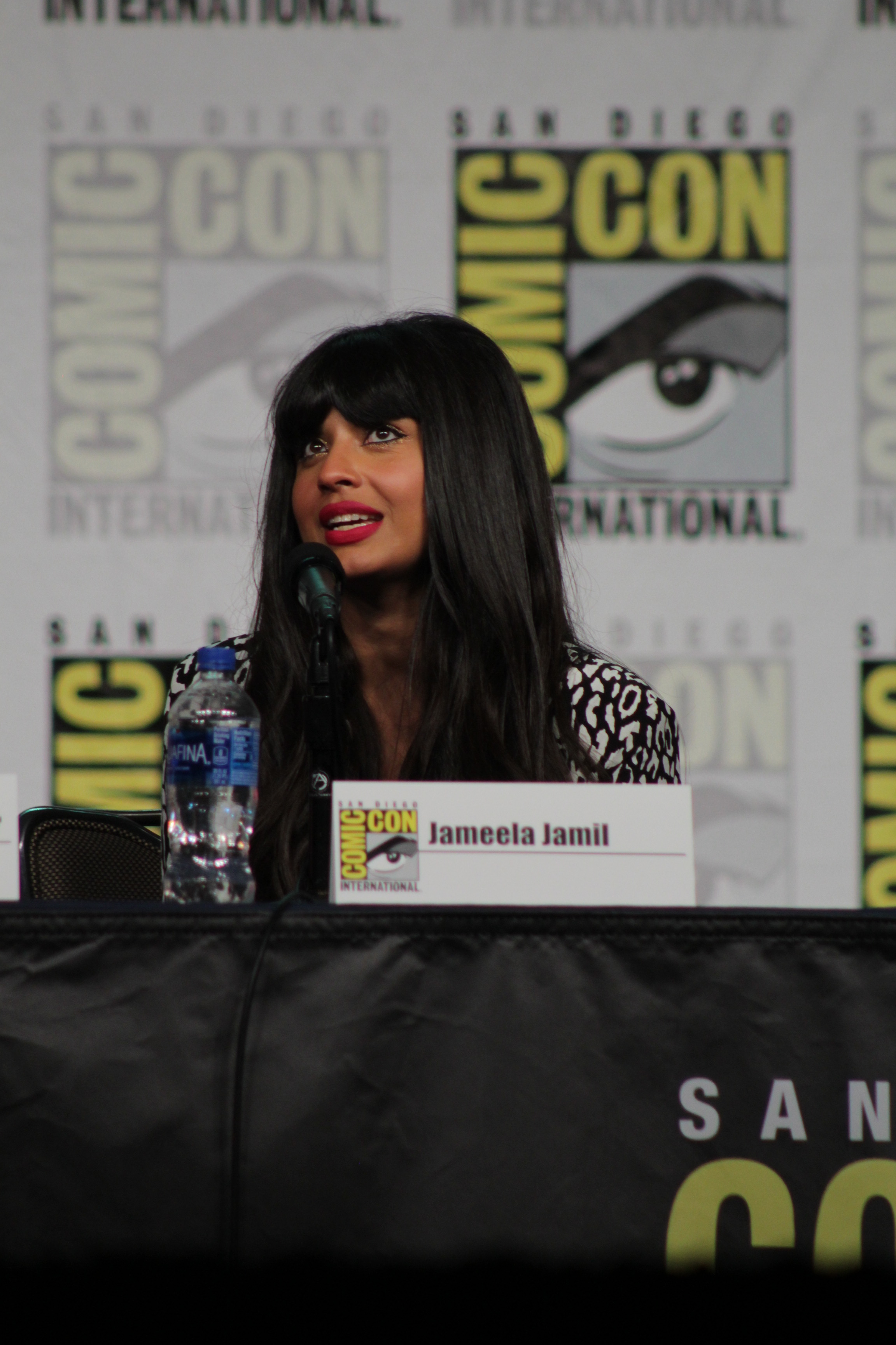 Cast and crew of NBC's 'The Good Place' discuss the show in the Indigo Ballroom at the San Diego Hilton Bayfront Hotel during San Diego Comic Con on July 20, 2019. Taken by Dominique Redfearn.